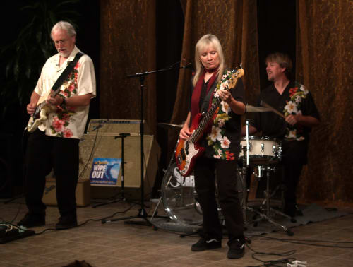 Musicians, surf rockers the Surfaris